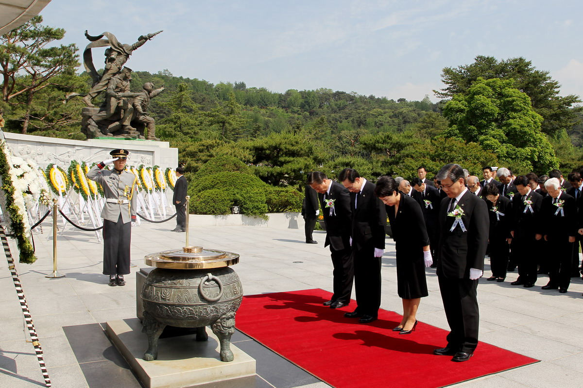 Hyeonchung-il or Memorial Day is the day that commemorates all the people who died while in military service or the Korean independence movement. President Lee Myung-bak and First Lady Kim Yoon-ok on Sunday (Jun. 06) visited the National Cemetery in Seoul, where the President delivered a memorial address.